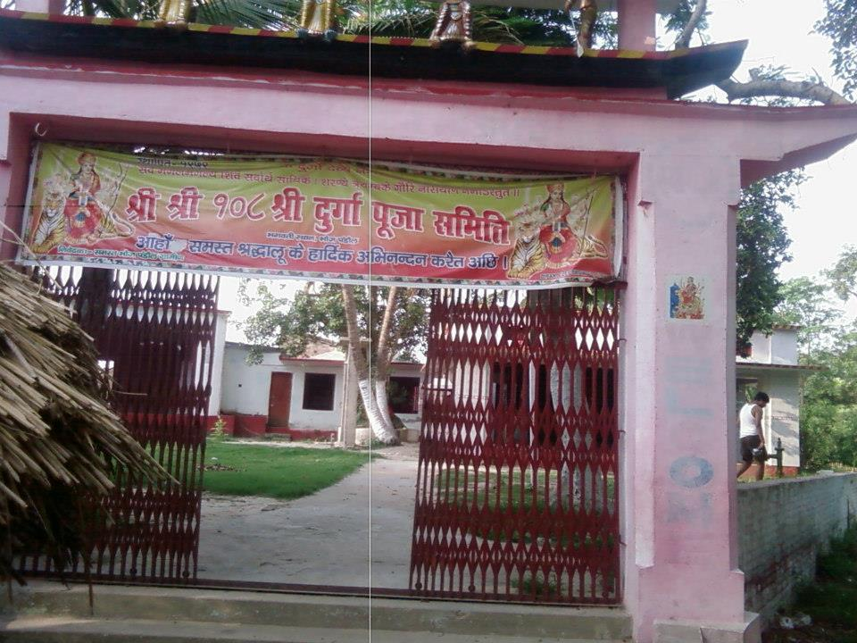 Gate of shri shri 1008 Bhagwati Sthan,Dakshinbai tol,Bhojpandaul